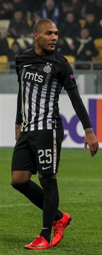 Everton Luiz playing for Partizan against Dynamo Kyiv (7 December 2017)